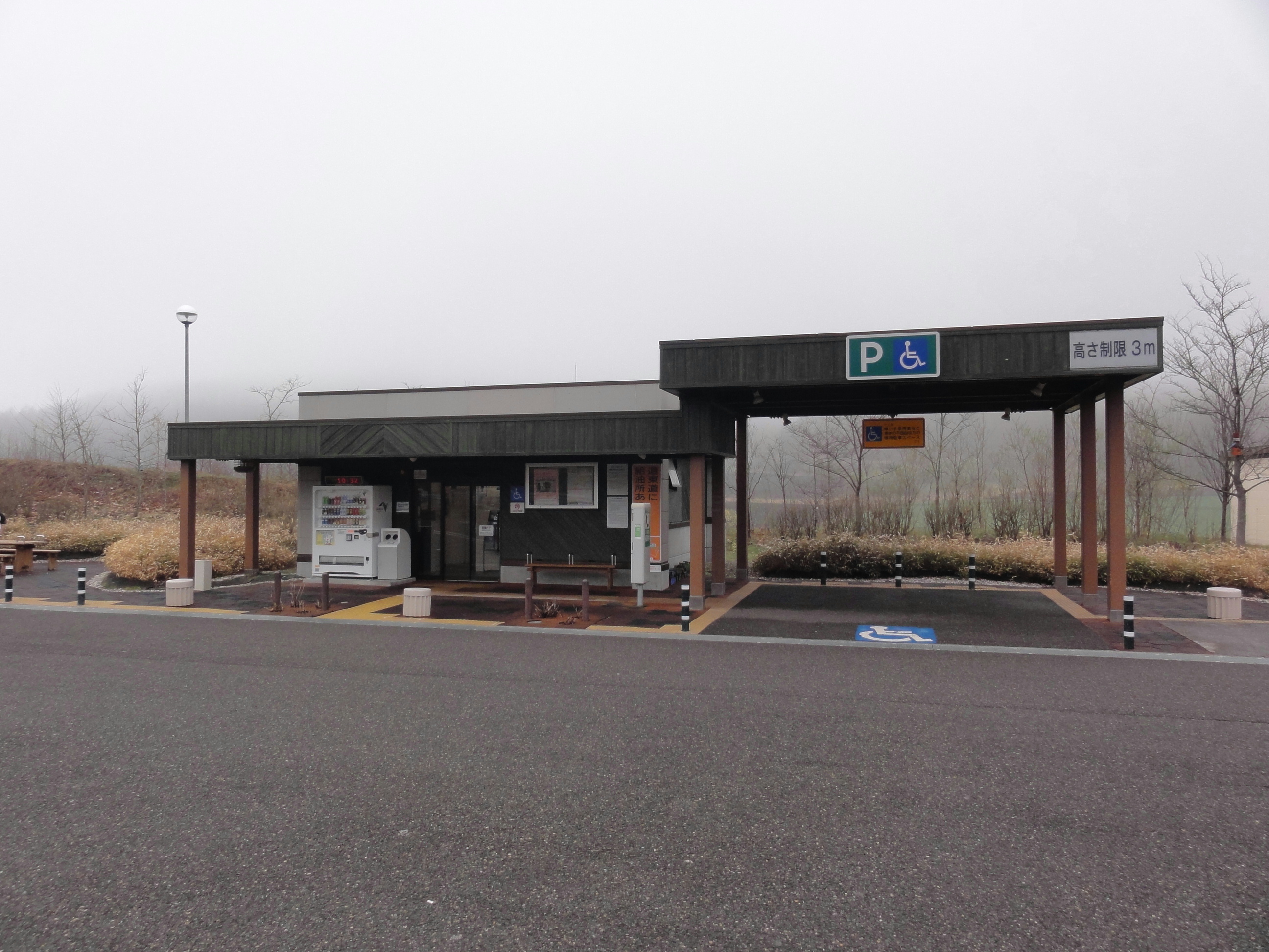 Dōtō Expressway Osarushi Parking Area